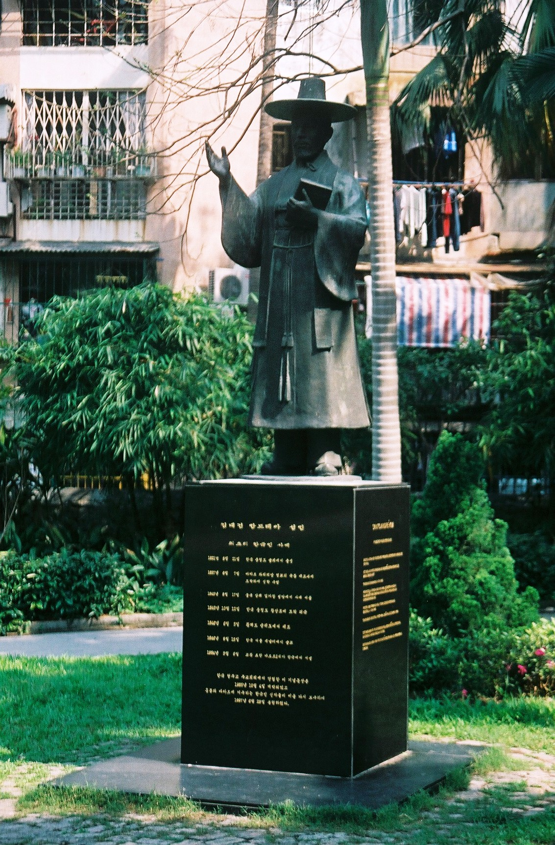 Statue of St. Andre Kim, a Korean martyr